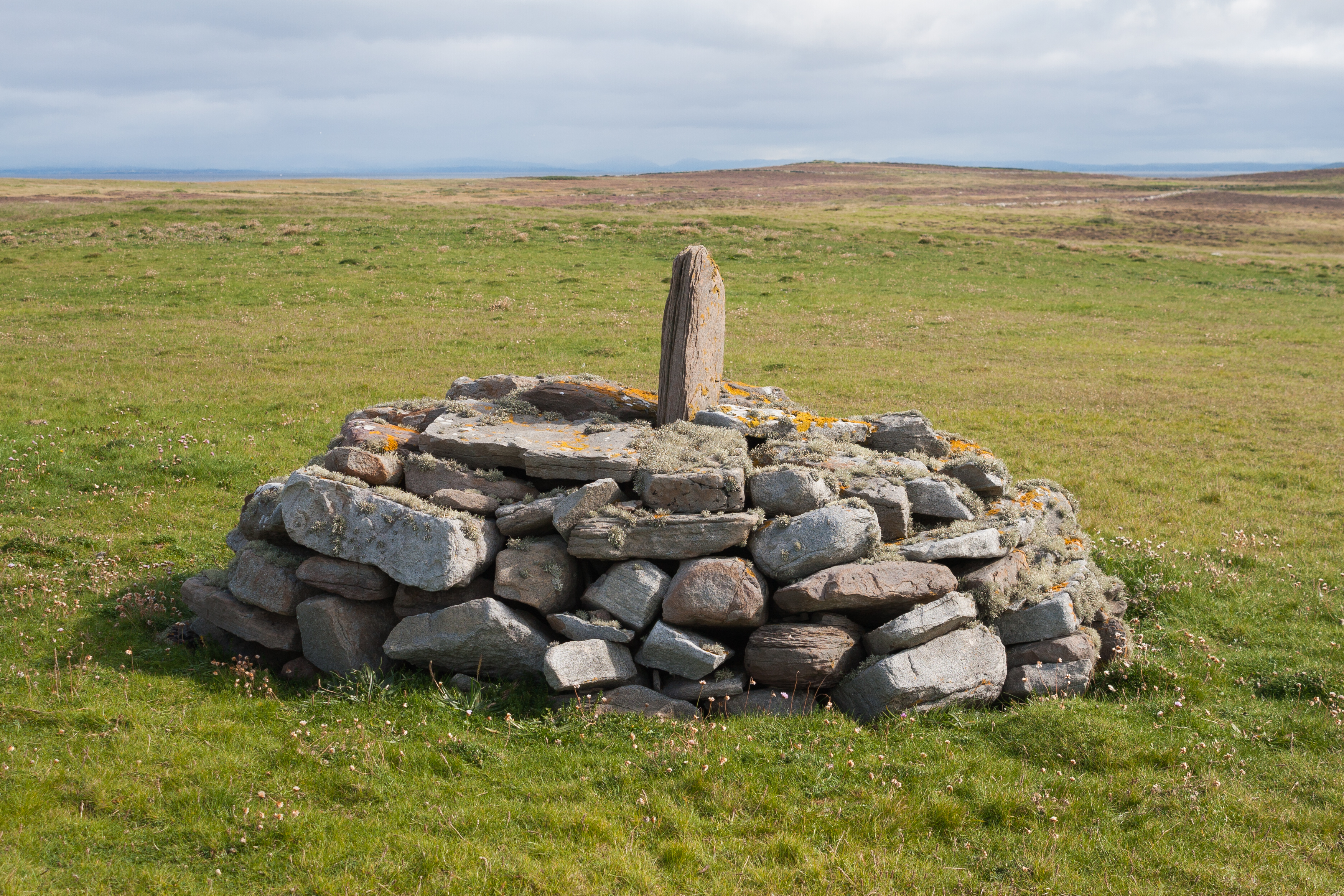 Leacht at Trahanareear, looking east.